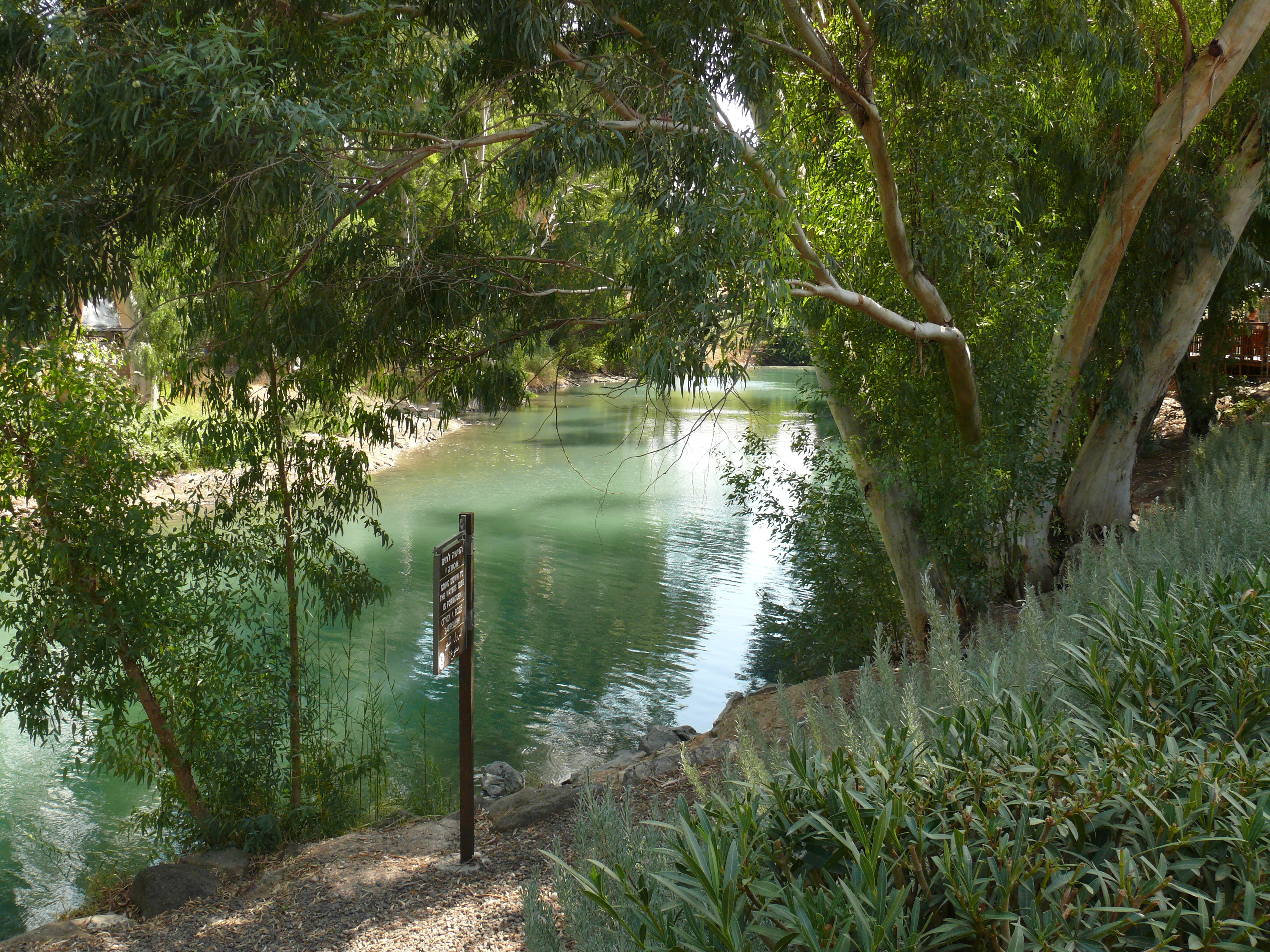 Yardenit